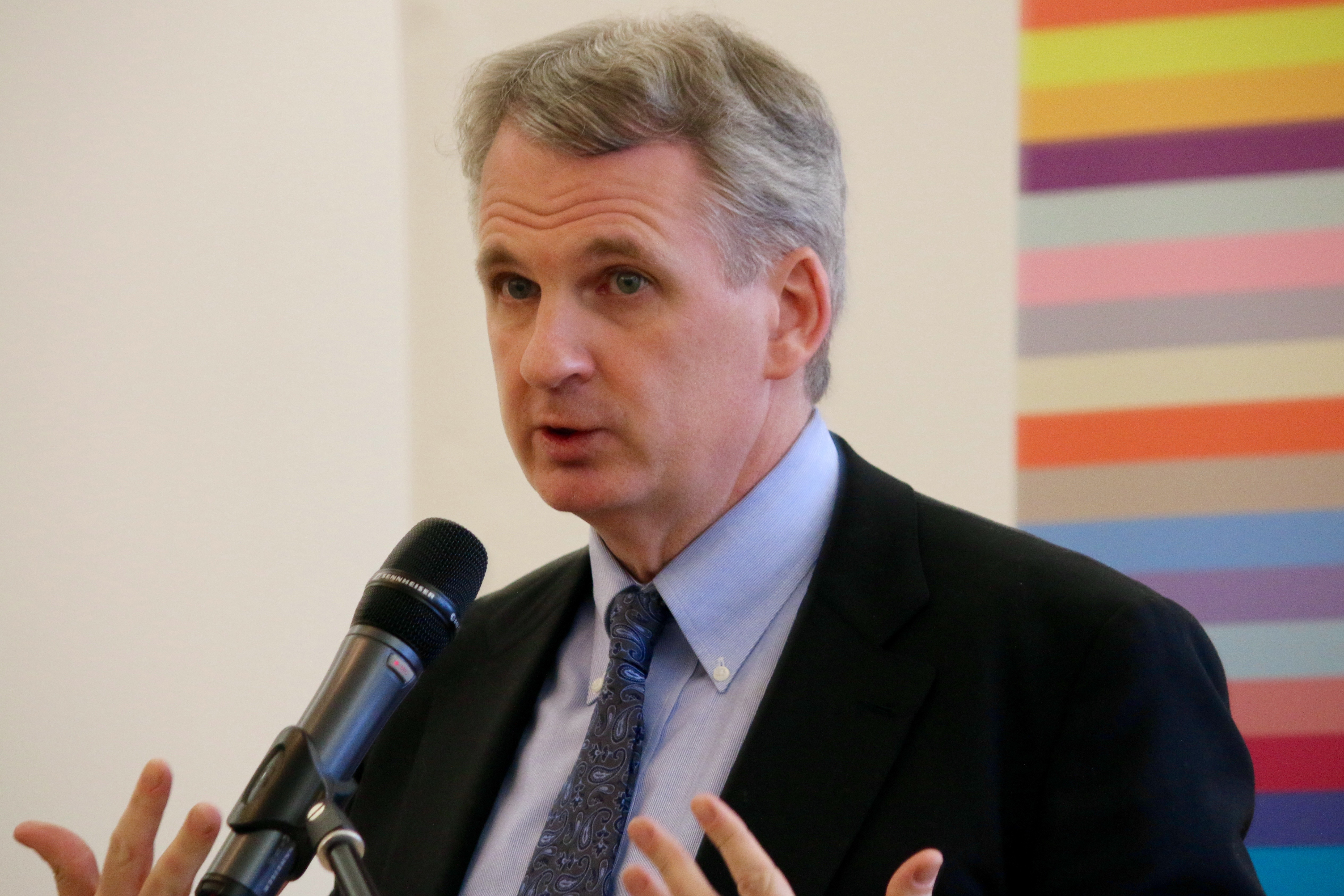 American Historian Timothy Snyder in 2016